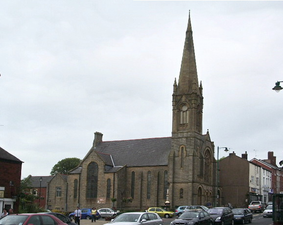 Kirkham United Reformed Church